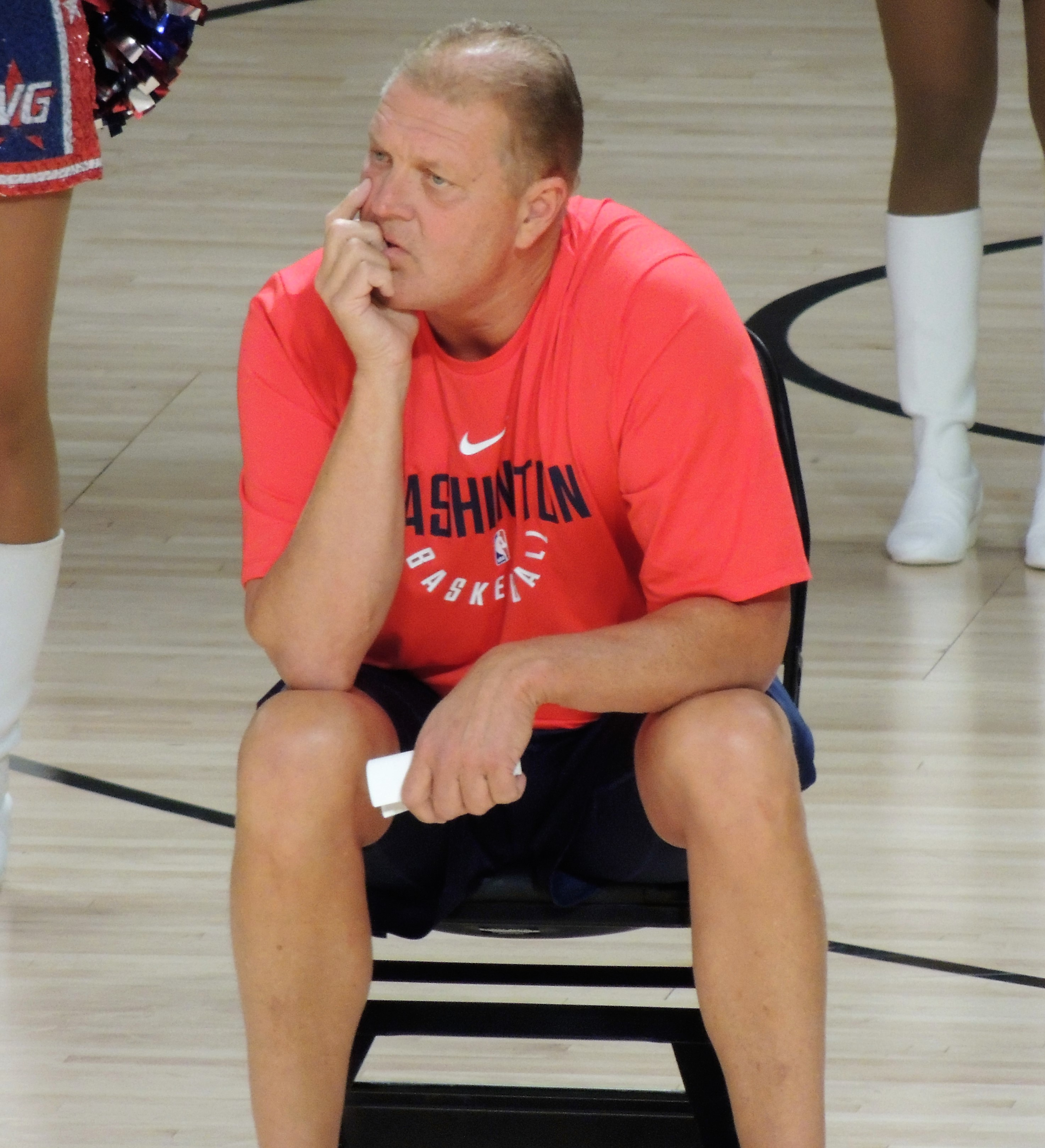 Washington Wizards assistant coach Mike Terpstra at 2017 training camp